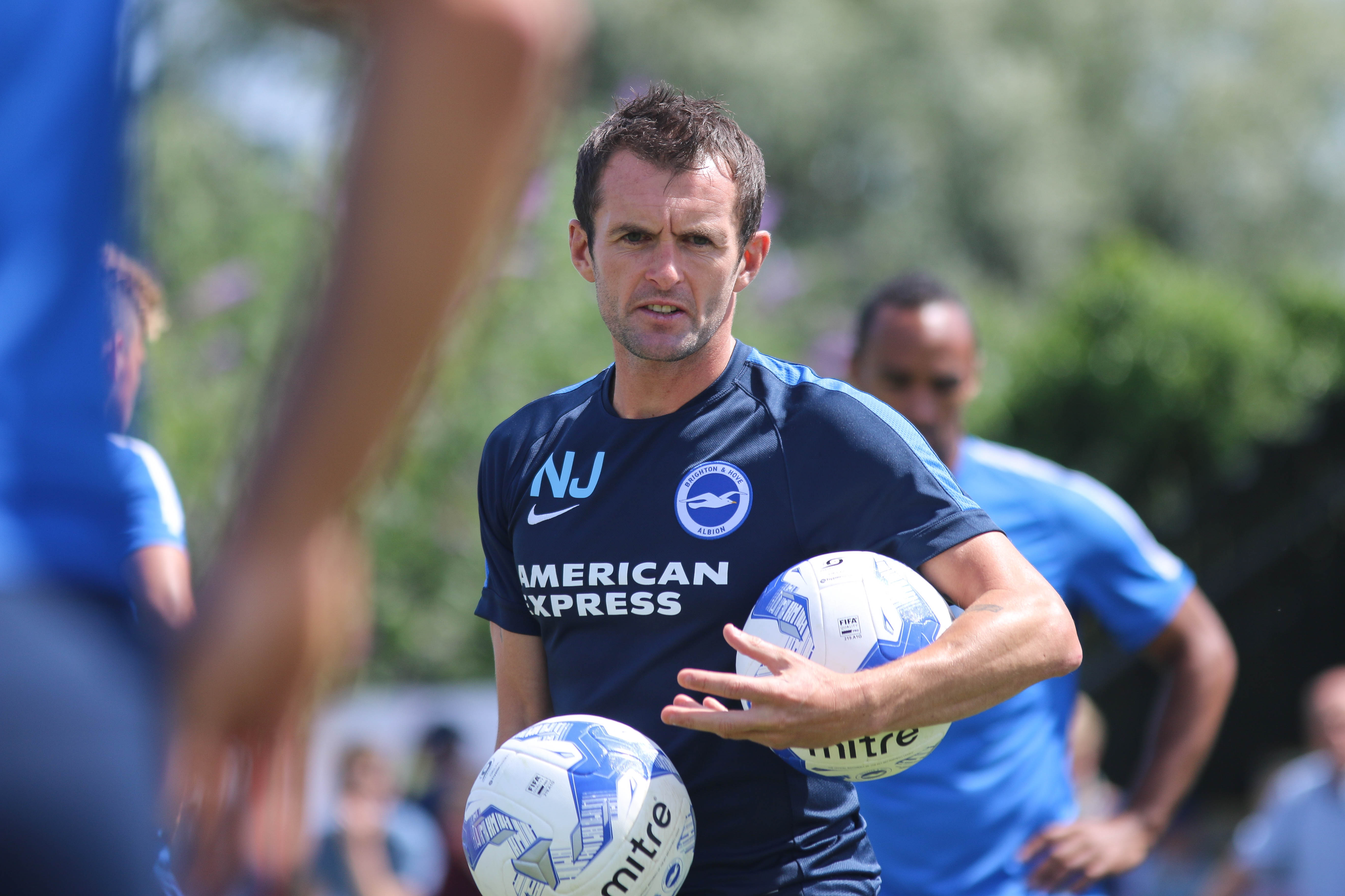 Lewes 0 BHA 0 18 July 2015-255.jpg